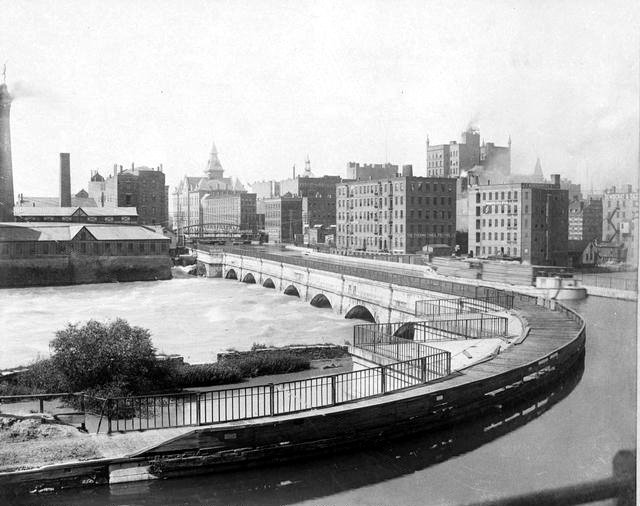 A view of the Erie Canal aqueduct over the Genesee River in Rochester, New York, sometime between 1888 and 1894.